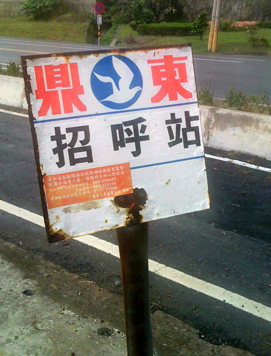 "Request Stop" sign board of Coast Line Area, Diing Dong Bus.